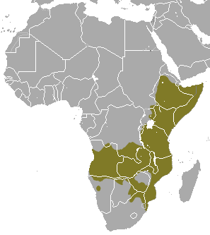 Common Dwarf Mongoose (Helogale parvula) range